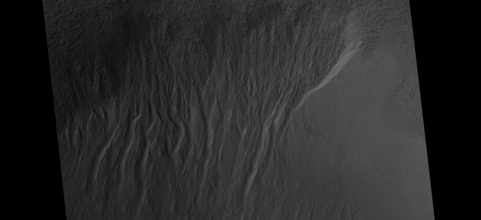 Gullies, as seen by hirise under HiWish program. Location is 44.187 S and 308.815 E.